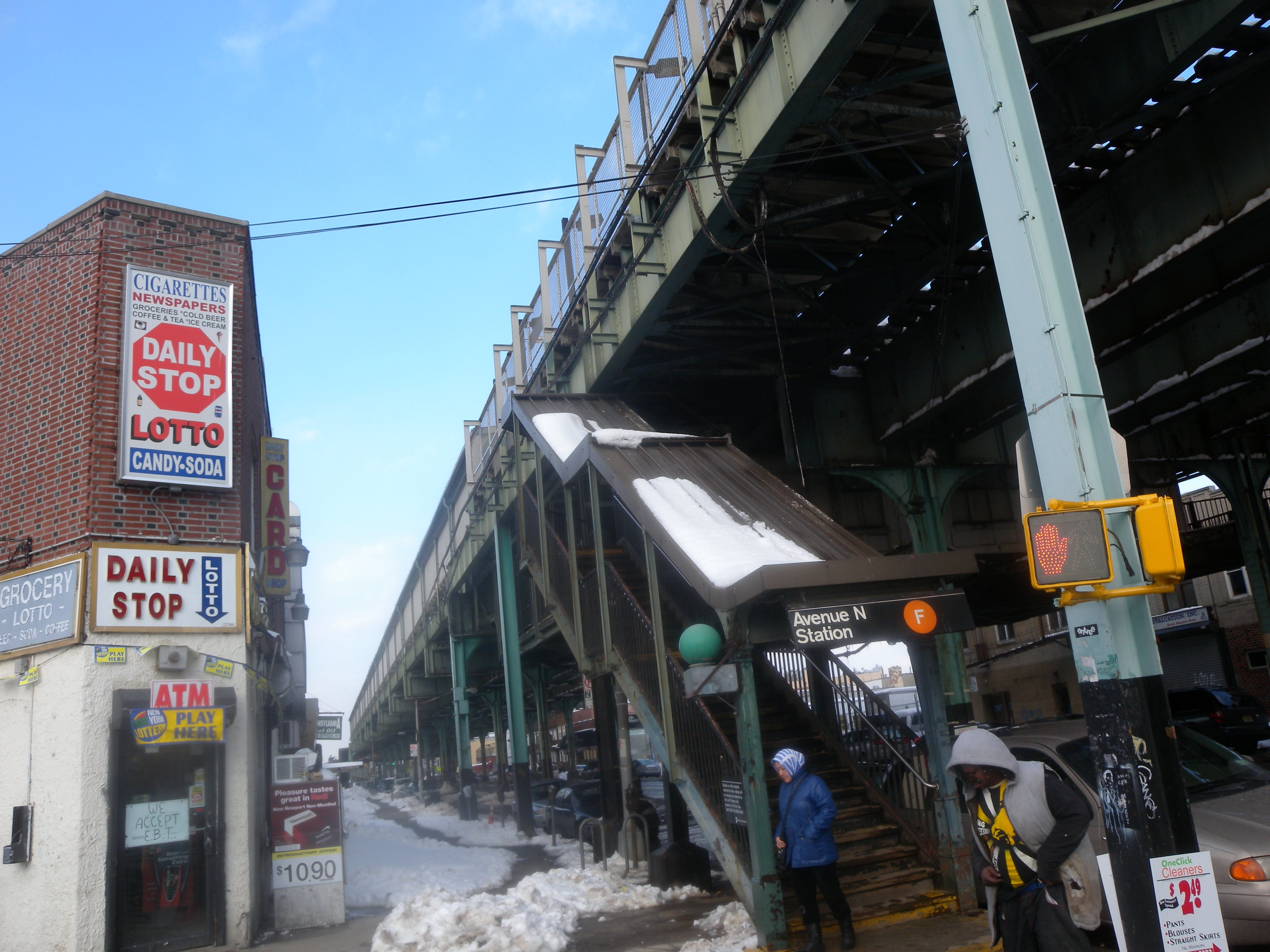 Looking north at southwest stair of Avenue N station on a mostly cloudy afternoon.